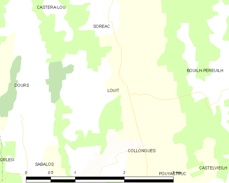 Map of French municipality